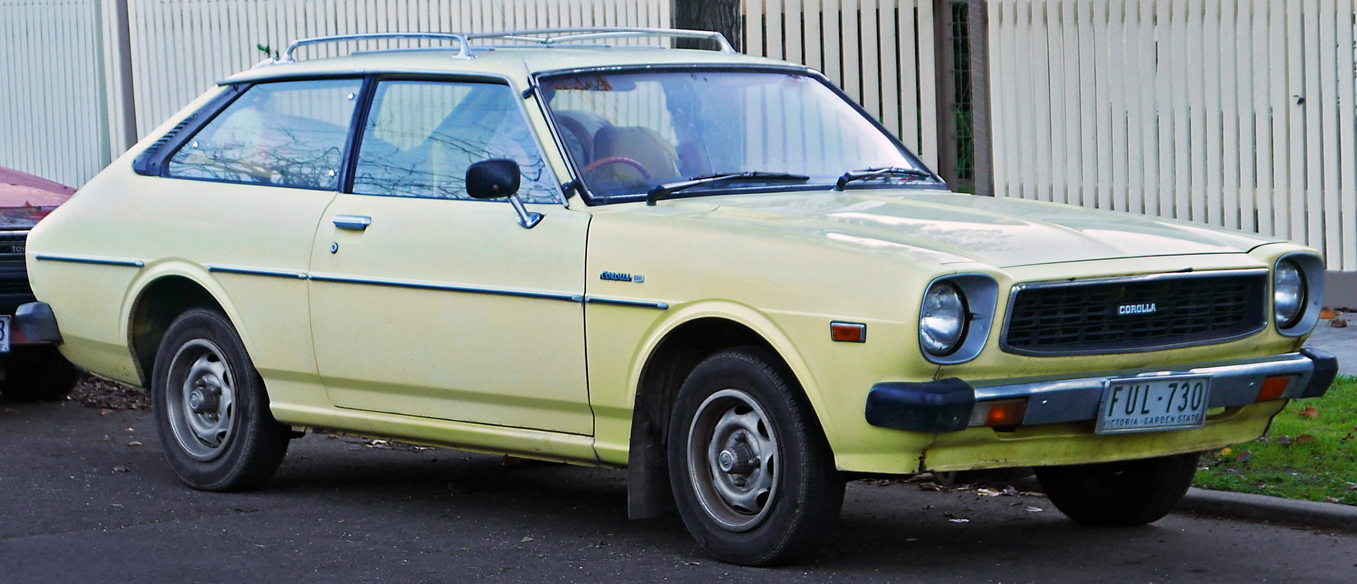 1978 Toyota Corolla (KE50R) liftback. This is the version as sold in Australia between January 1977 and May 1978 [1]. The engine fitted is the 1.2-litre 3K engine as per VicRoads. Photographed in Northcote, Victoria, Australia. Vehicle registration enquiry results Jurisdiction Victoria Registration FUL730 Chassis code Not available Engine code 3K7600081 Compliance date Not available Year of manufacture 1978